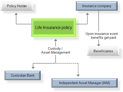 Chart and structure of a life insurance policy.